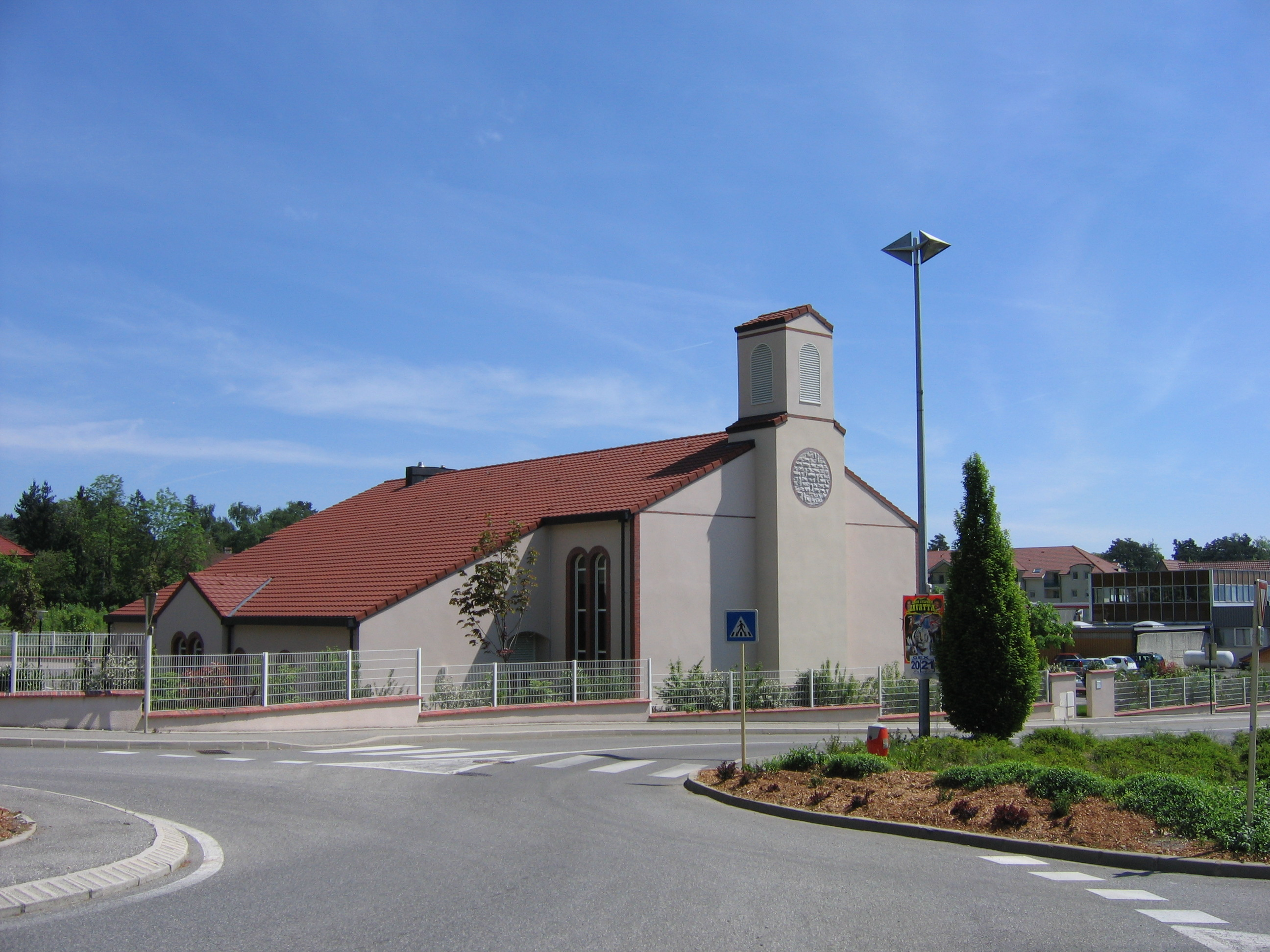 A meetinghouse of The Church of Jesus Christ of Latter-day Saints in Gex, France